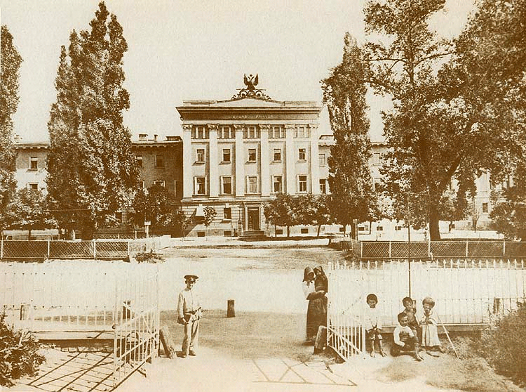 1-st Kiev gymnasium in Ukraine